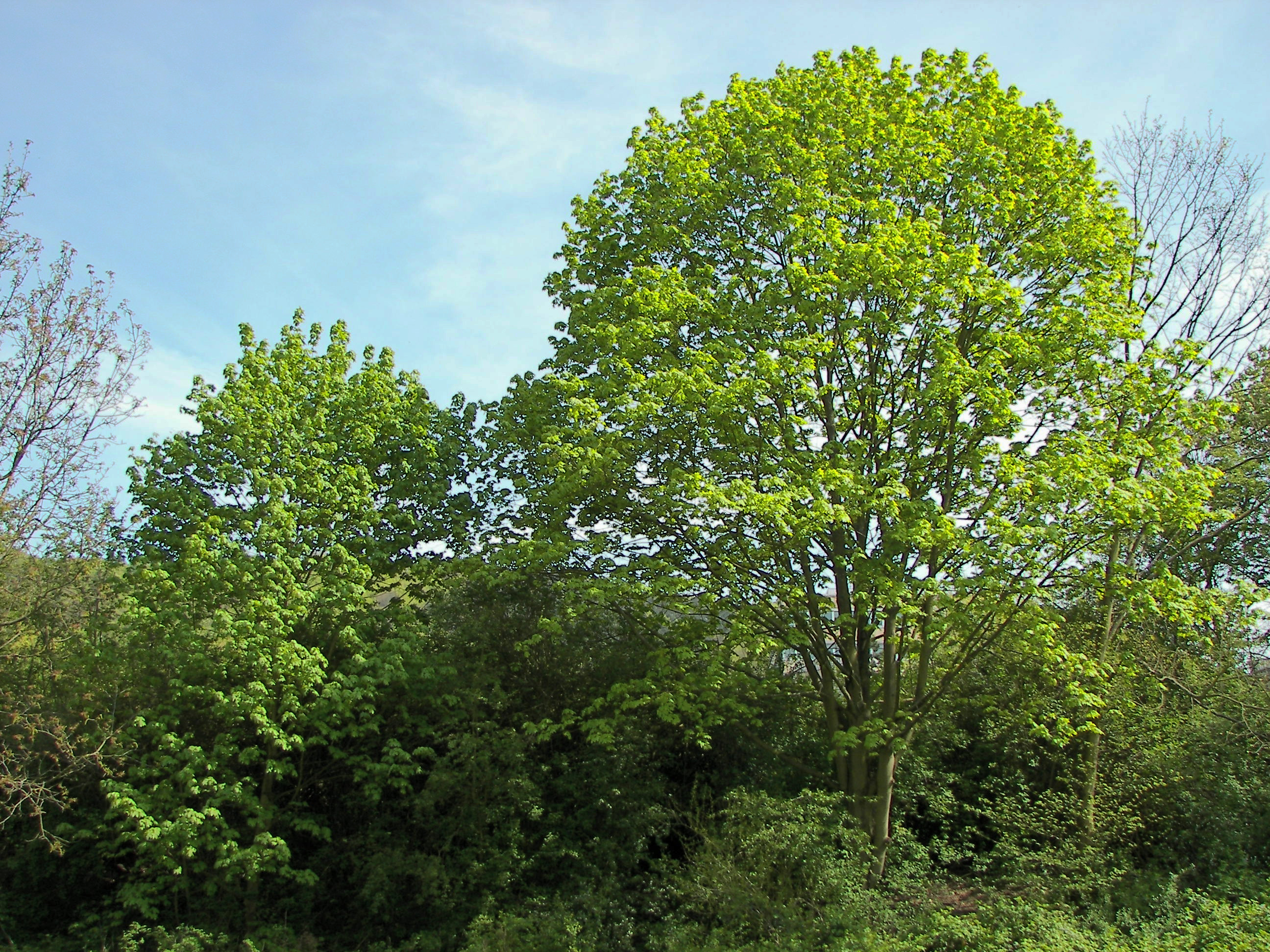 Field Maple (Acer campestre), Location: Marburg, Hesse, Germany